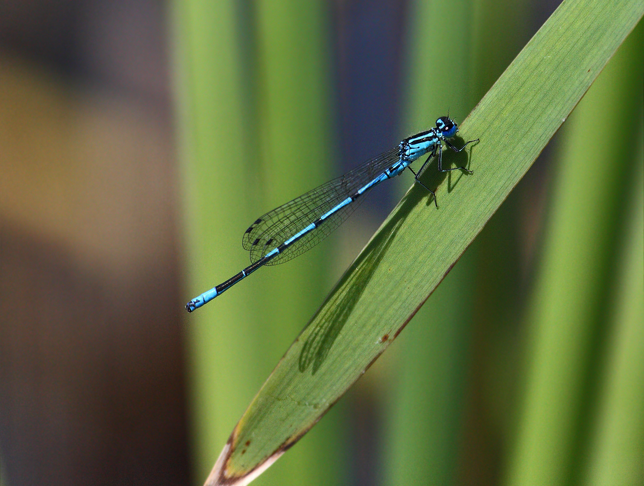 male Azure Damselfly